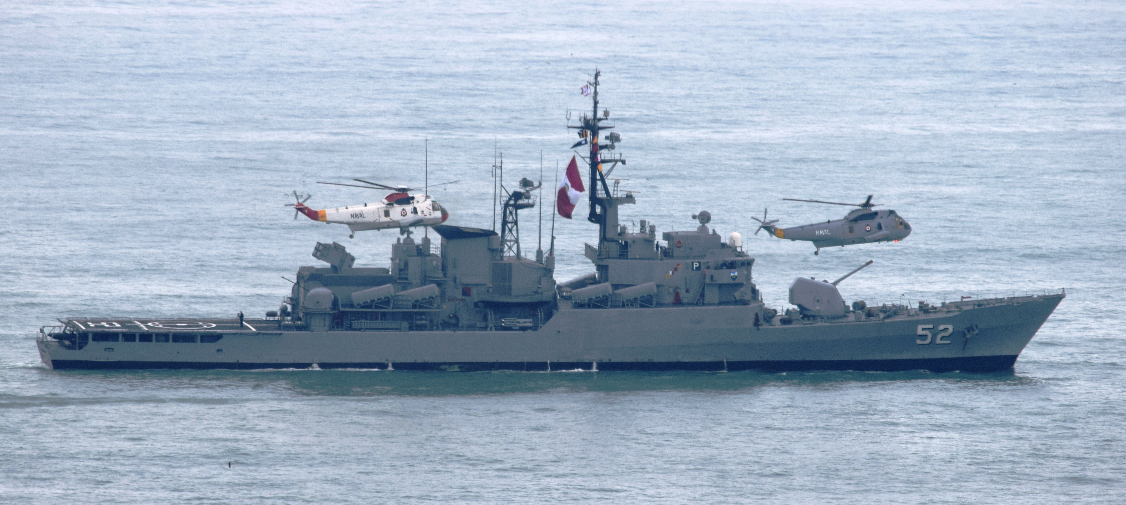 Frigate - Peruvian Navy